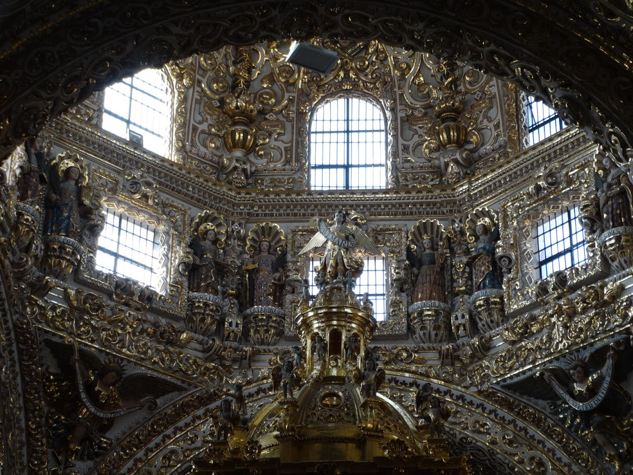 Decoration details in Santo domingo (Puebla)